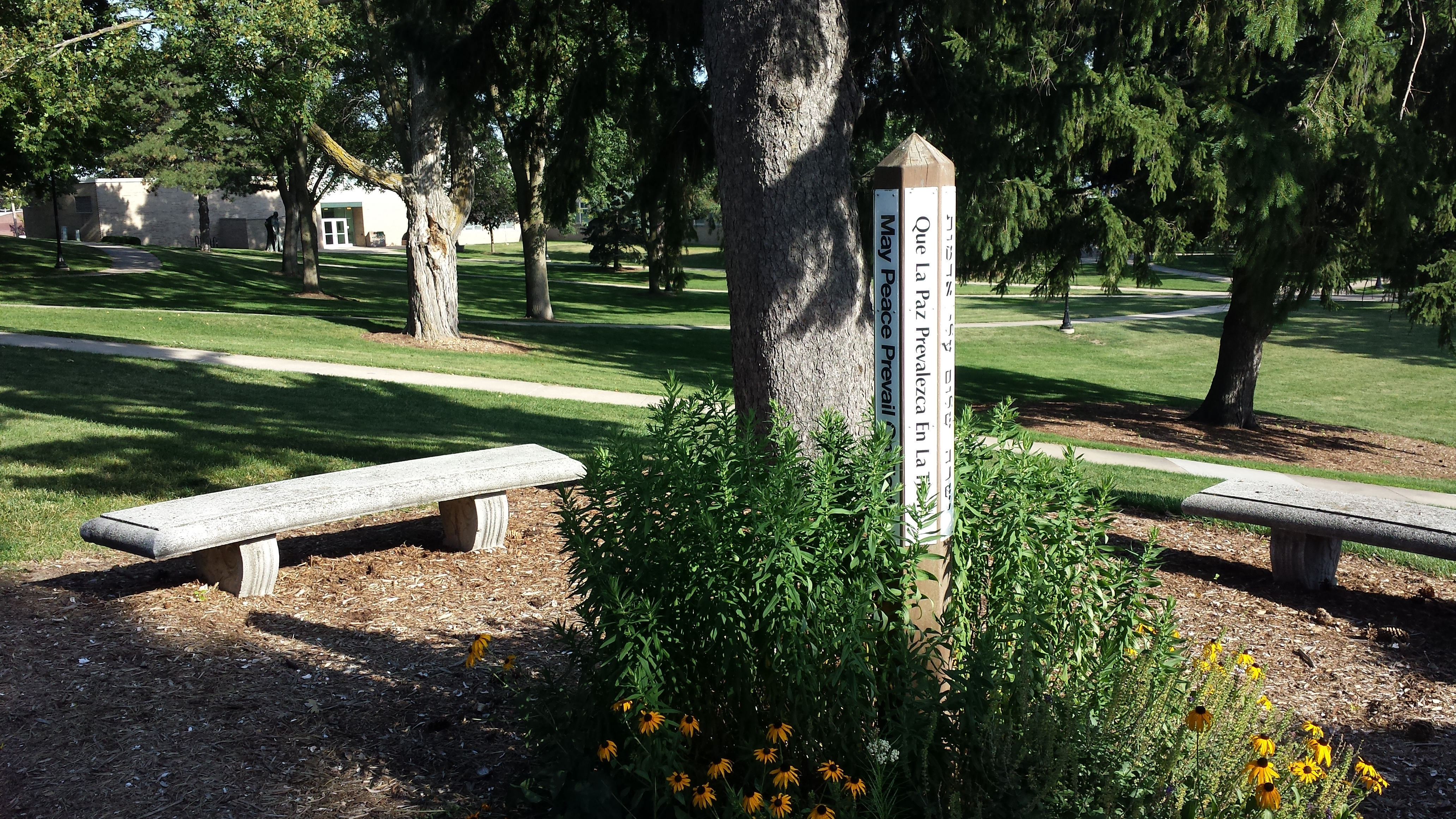 Peace Pole, Ripon College